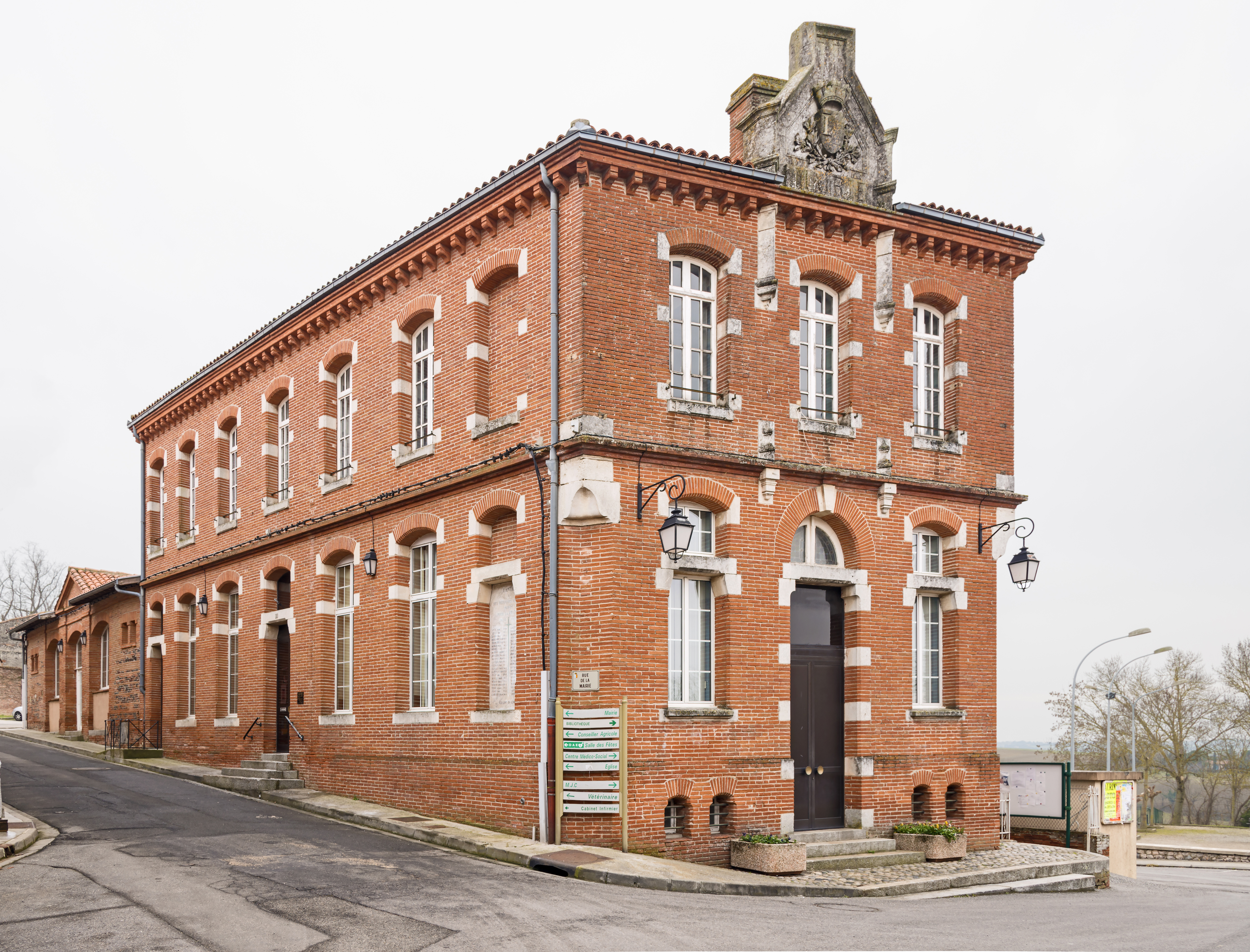 Lanta, Haute-Garonne France, town hall facade Architect : Jacques-Jean Esquié